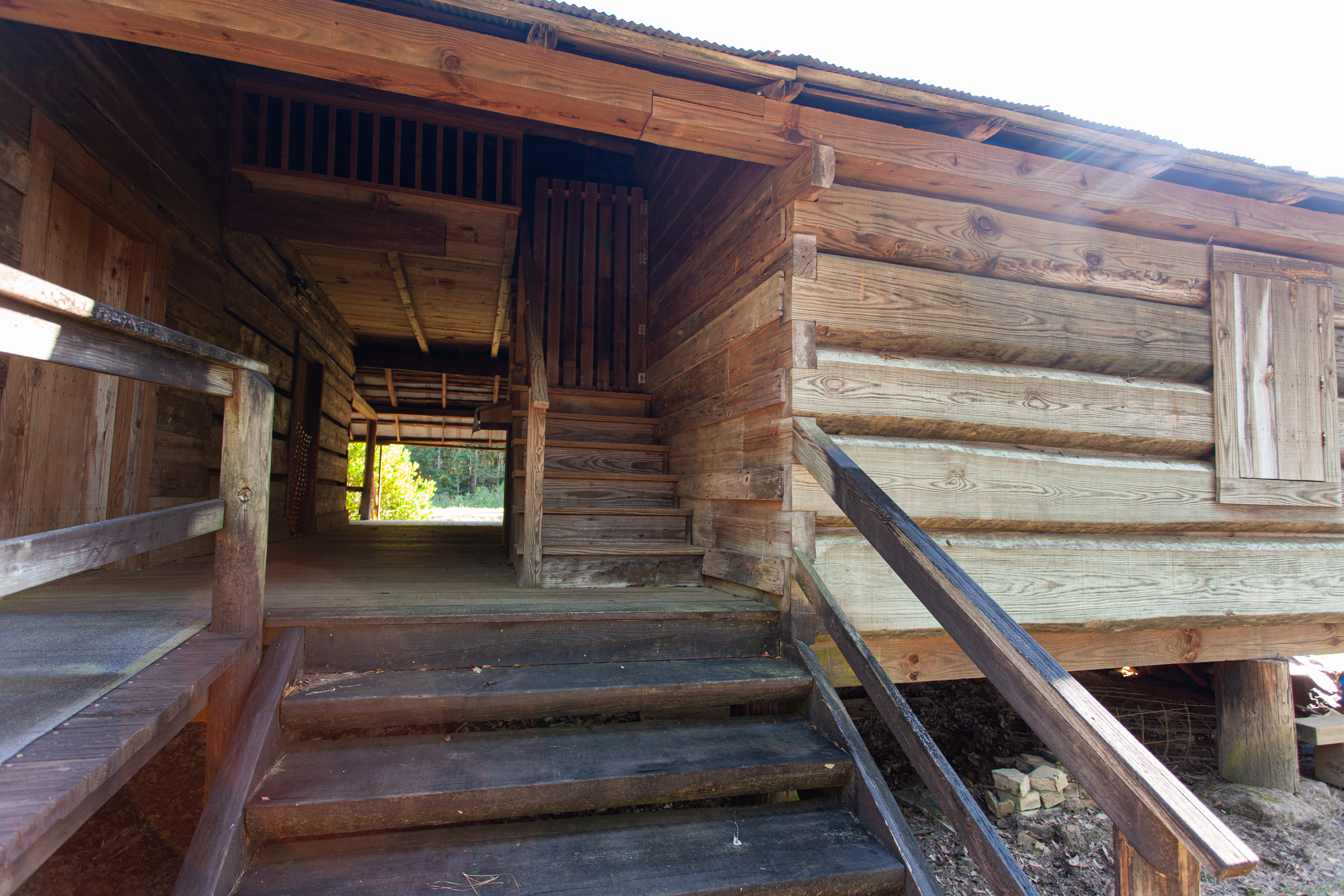 The backside and breezeway of the dog trot Autrey House outside Dubach, Louisiana.